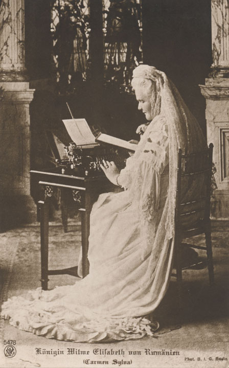 Queen Elisabeth of Romania